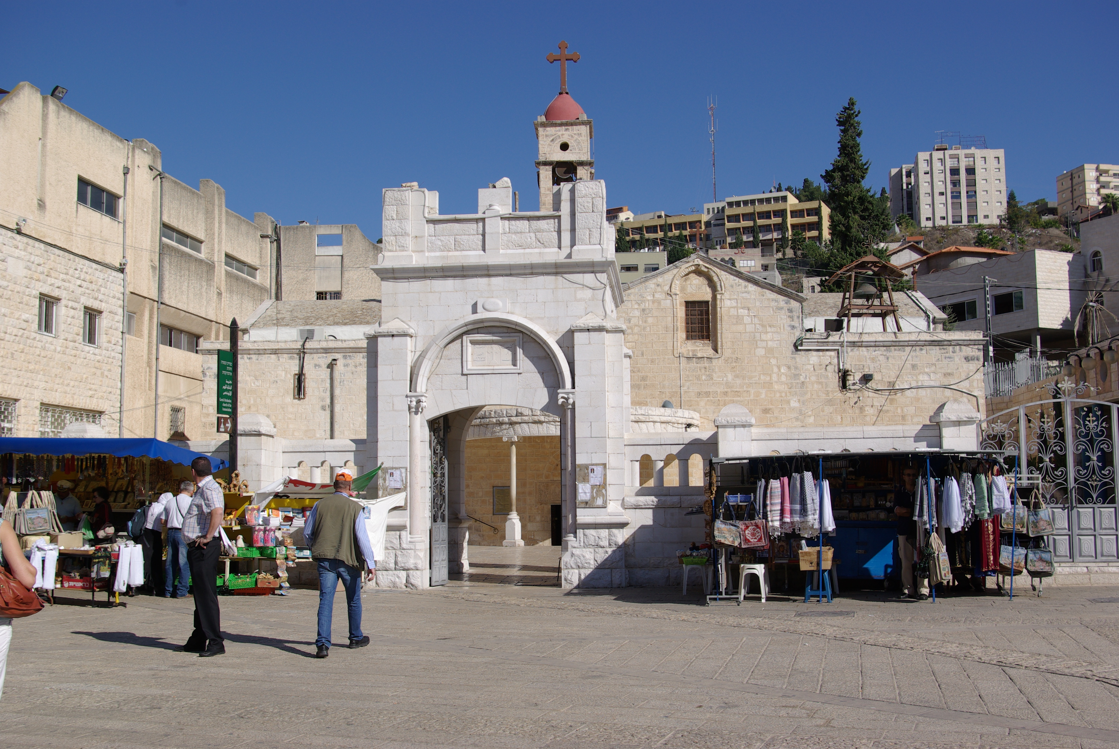 St. Gabriel's Greek Orthodox Church in Nazareth